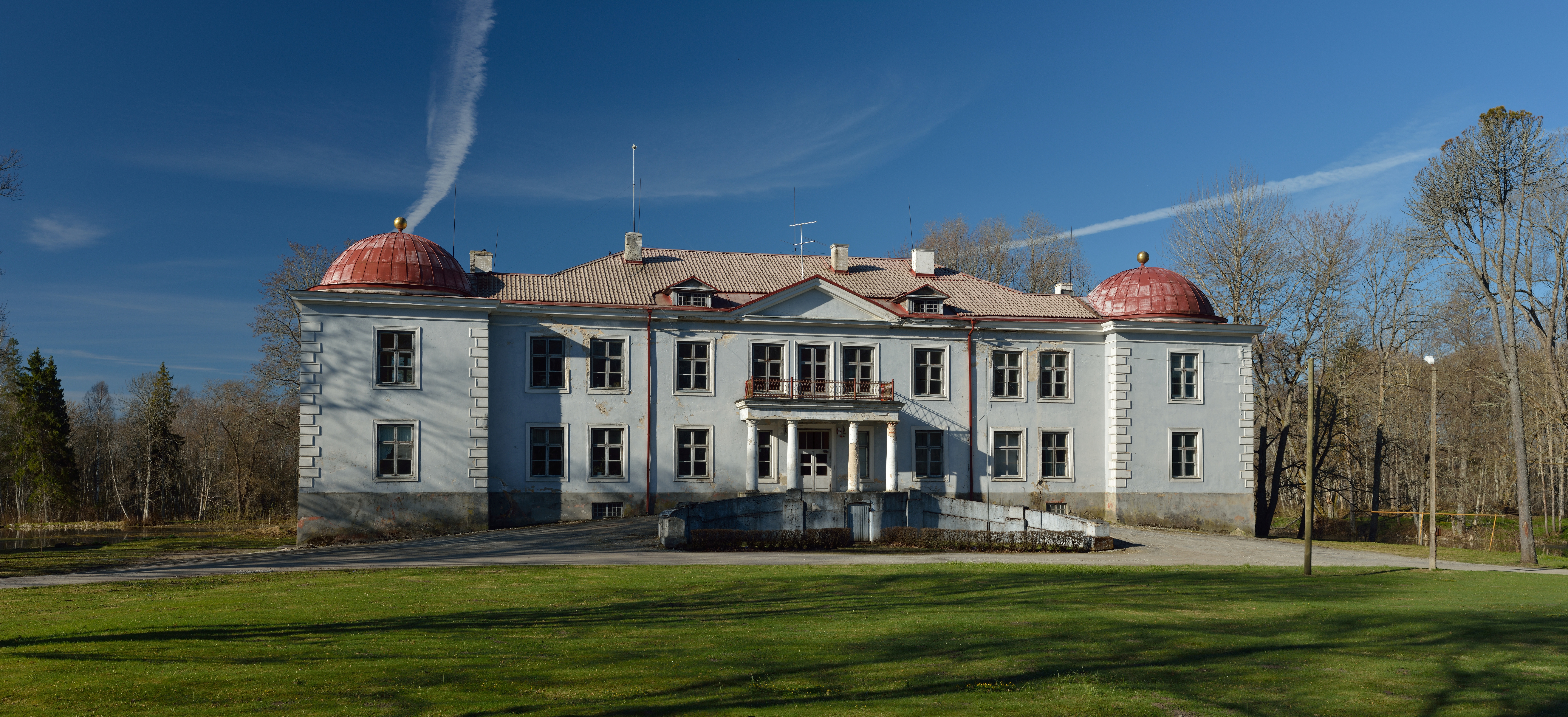 Maidla manor main building